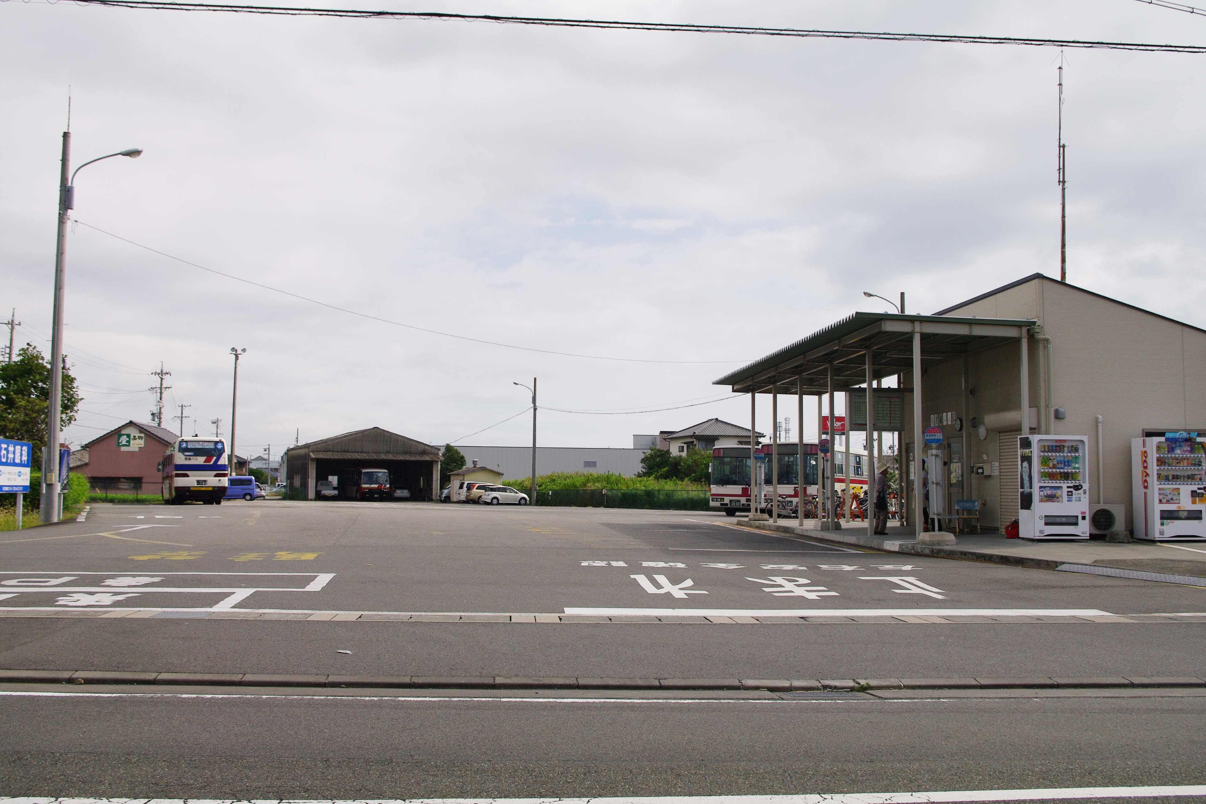 Shizutetsu Justline Sagara Depot, Haibara Branch